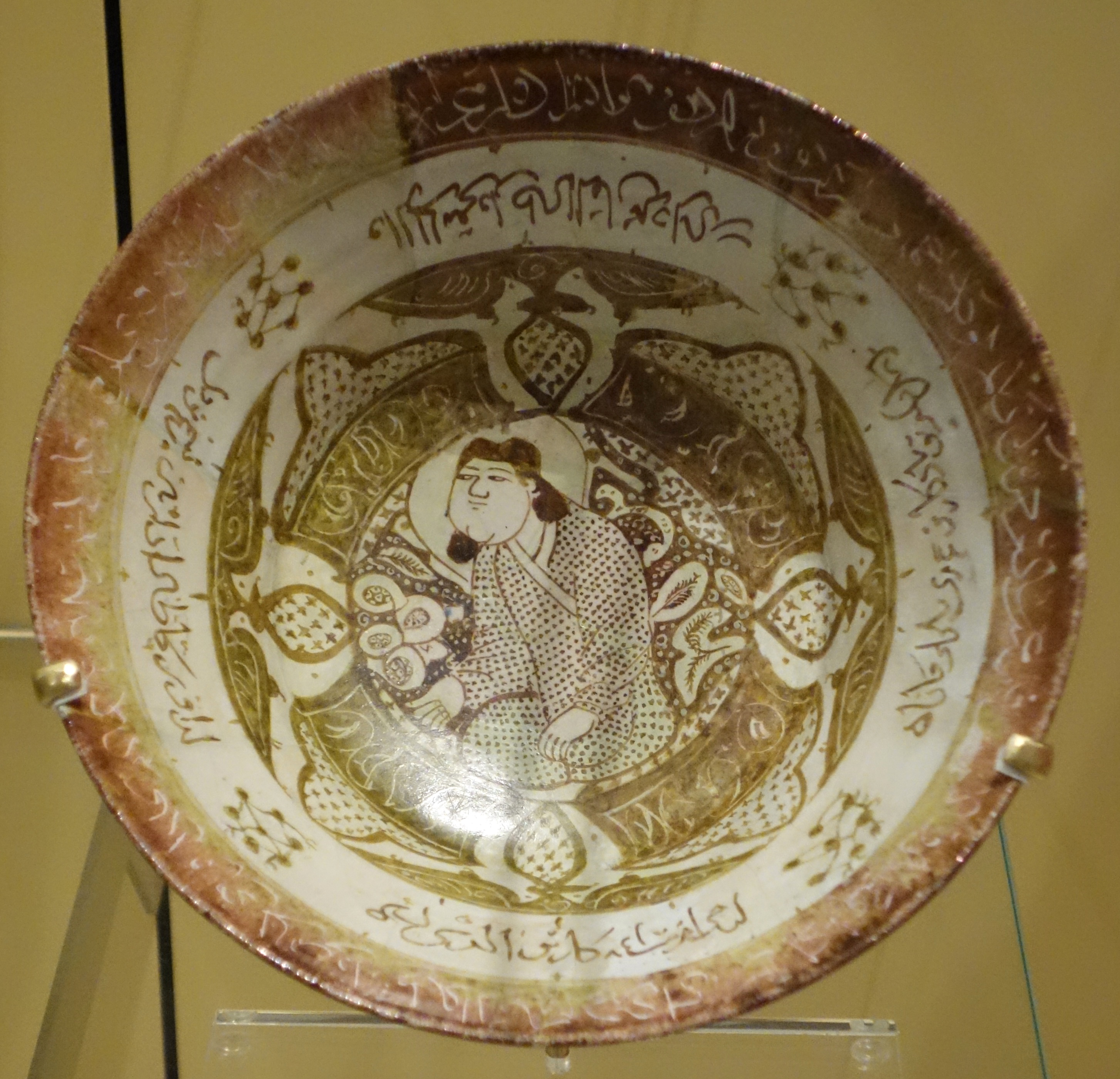 Exhibit in the Royal Ontario Museum, Toronto, Ontario, Canada. This work is old enough so that it is in the public domain.